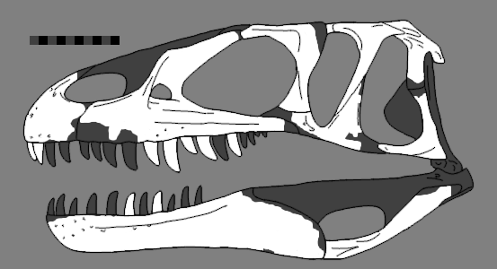 Reconstruceted skull of Dubreuillosaurus illustrating known (white) and unknown (grey) material. Scale bar is 10cm. Based of figures and description of Allain (2002) "Discovery of megalosaur (Dinosauria, Theropoda) in the middle Bathonian of Normandy (France) and its implications for the phylogeny of basal Tetanurae"